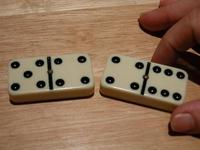 Example of dominoes move